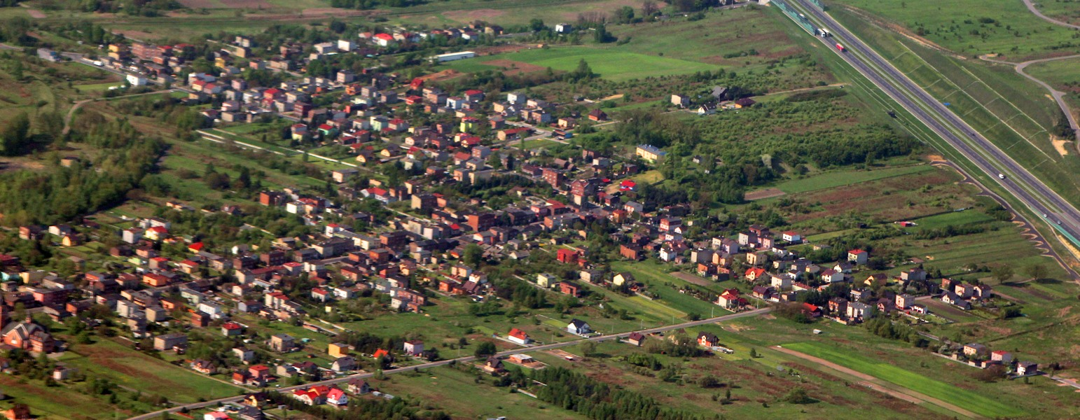 View from the northeast towards village Bobrowniki, Poland.